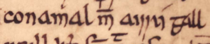 An excerpt from folio 33v of Oxford Bodleian Library MS Rawlinson B 489 (the Annals of Ulster). The excerpt concerns a man named Conamal (died 980).